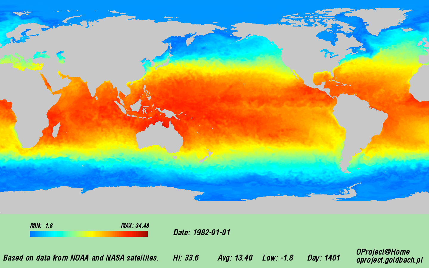 Sea Surface Temperature in 1982-01-01 (Oproject@Home)